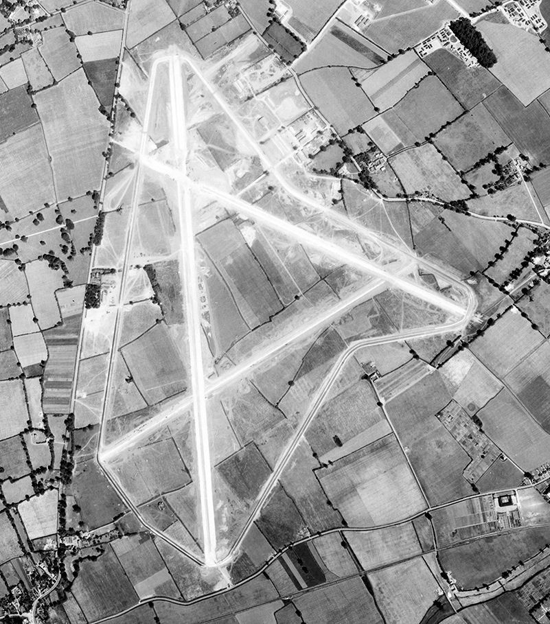 Aerial photograph of Eye Airfield, looking north, 16 July 1943. Photograph taken by 7th Photographic Reconnaissance Group, sortie number US/7PH/GP/LOC2. English Heritage (USAAF Photography).